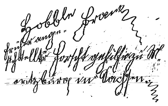 Autograph of the fictional character Hobble-Frank invented by Karl May.